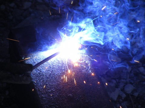 Free and Public Domain Photos – Shielded Metal Arc Welding More photos and details about possible copyright or licensing restrictions here: Full Size Up to 3072 x 2304 pixels Information Regarding Copyright